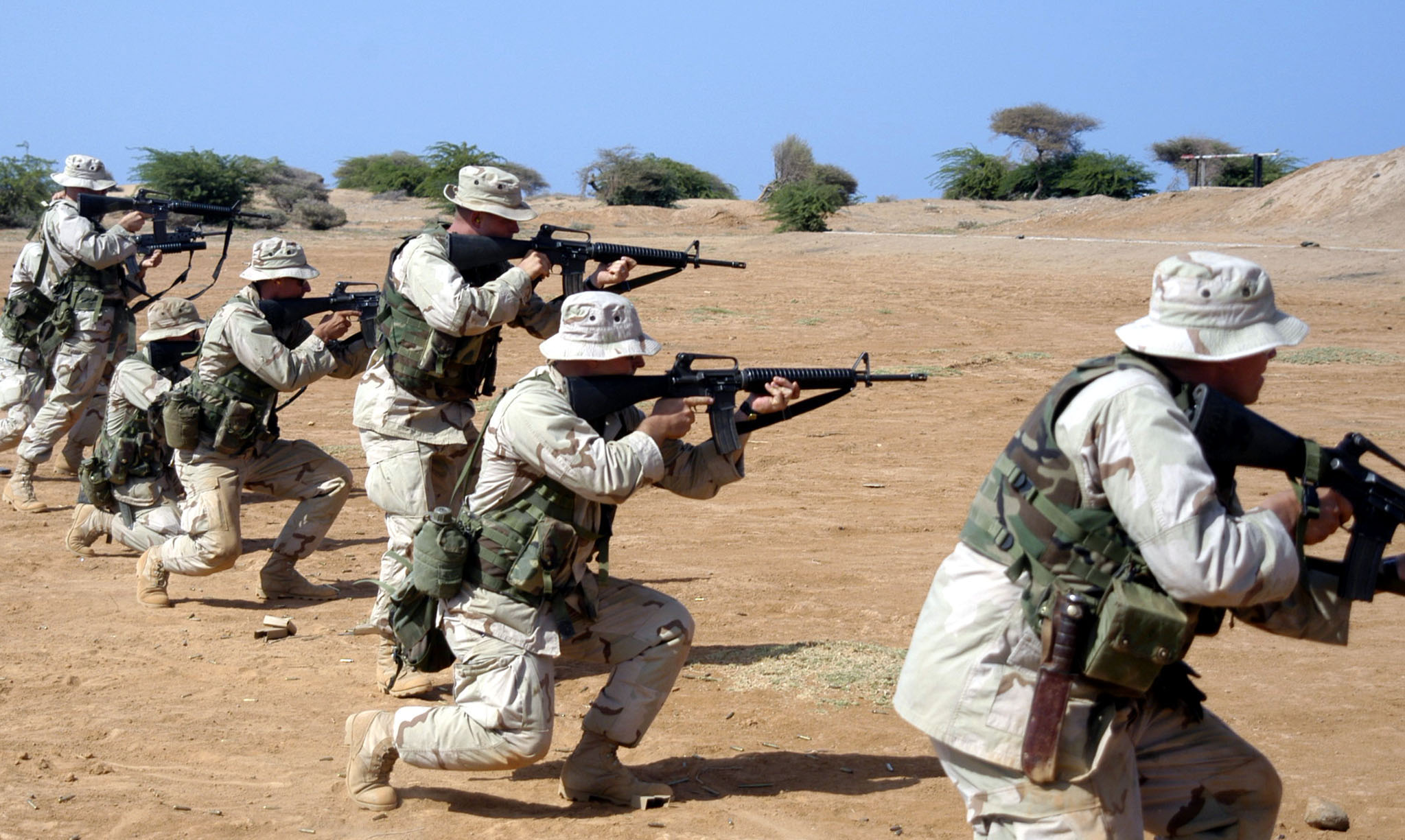 PhotoID: 200332955854 Submitted by: Combined Joint Task Force - Horn of Africa Operation/Exercise/Event: Combined Joint Task Force - Horn of Africa. Caption: CAMP LEMONIER, Djibouti -- Marines with Company A, Command Logistics Element, Marine Central Command, practice their speed and accuracy with M16-A2 service rifles during a "Presentation of Weapons" exercise March 24. The Marines, here supporting Combined Joint Task Force -- Horn of Africa, also attended a classroom course to make them aware of the mental and physical stresses they may encounter during a combatant situation. Photo by: Corpral Matthew J. Apprendi.